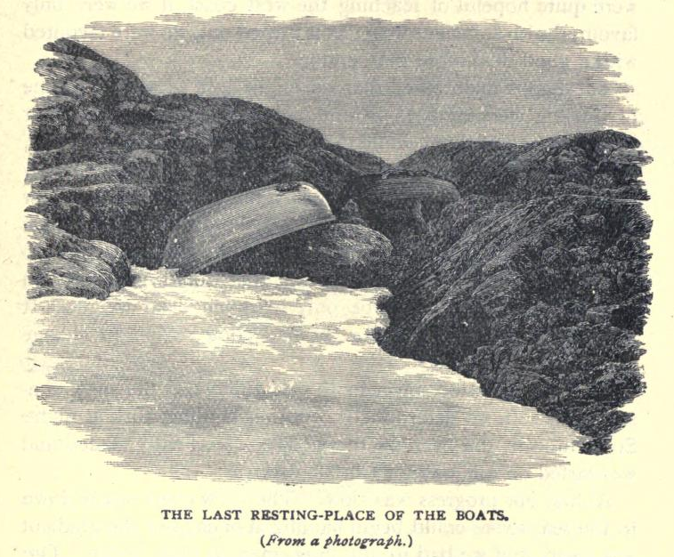 This drawing was derived from a photograph of the Nansen Expedition boats stored against the rocks on the east coast of Greenland as the Expedition. Photo from Nansen's book documenting the expedition, page 245.